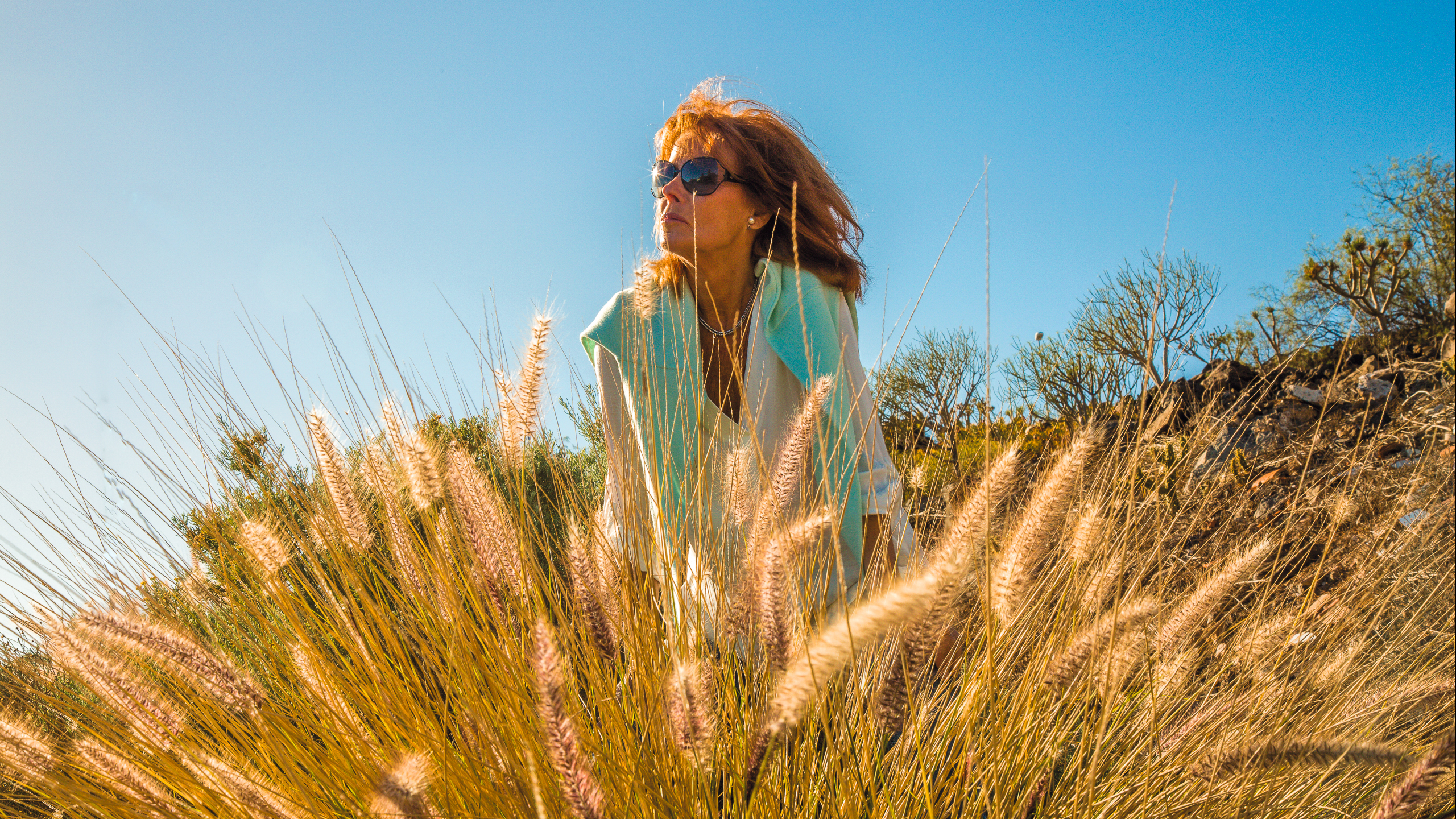 Doris Runge Tenerife 2017